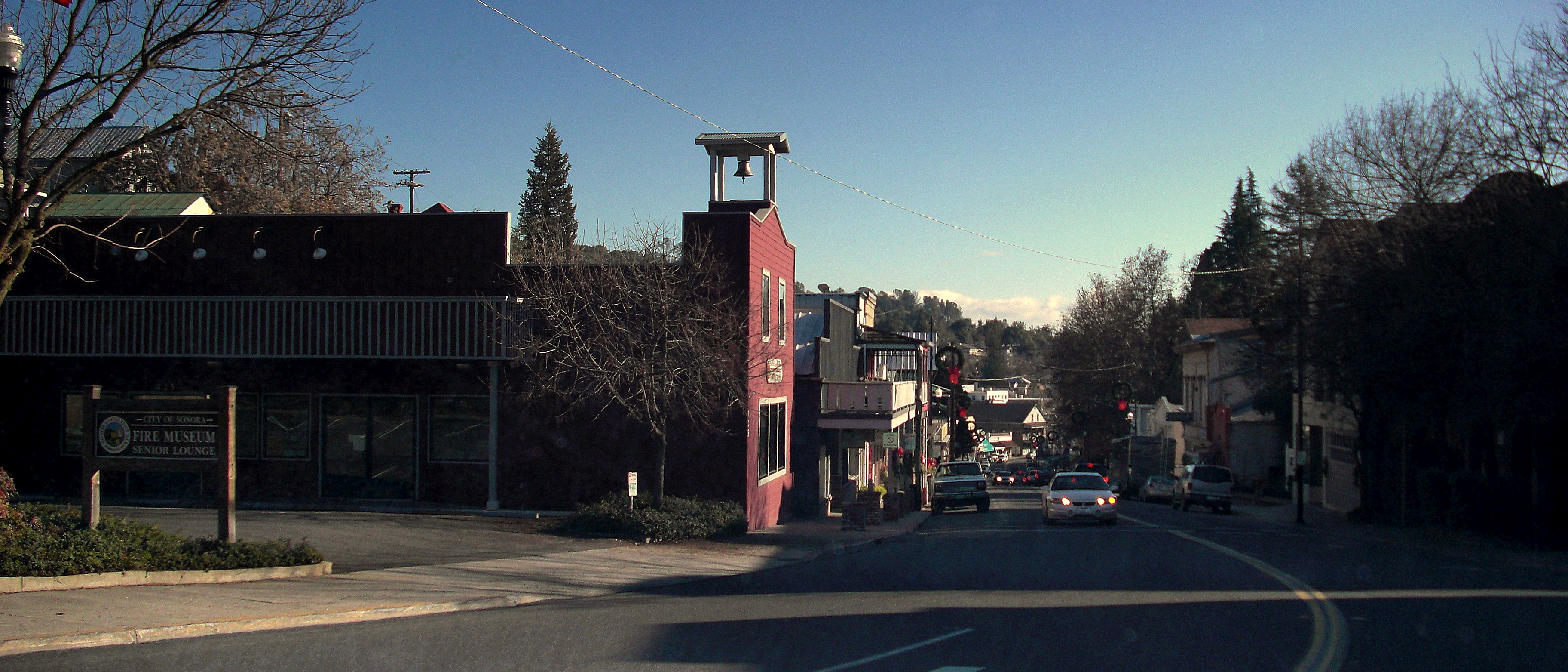 Looking south from the intersection of Washington Street and Snell Street in Sonora, near Sonora High School.